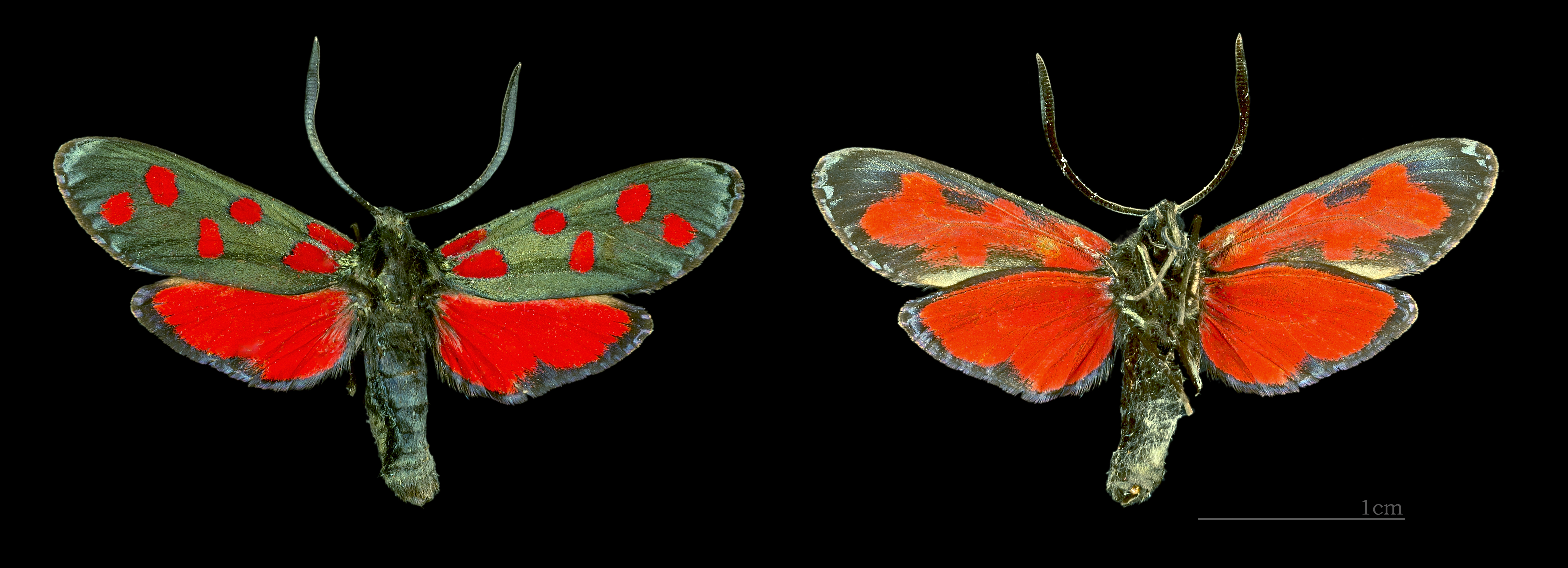 Zygaena transalpina - Two views of same specimen